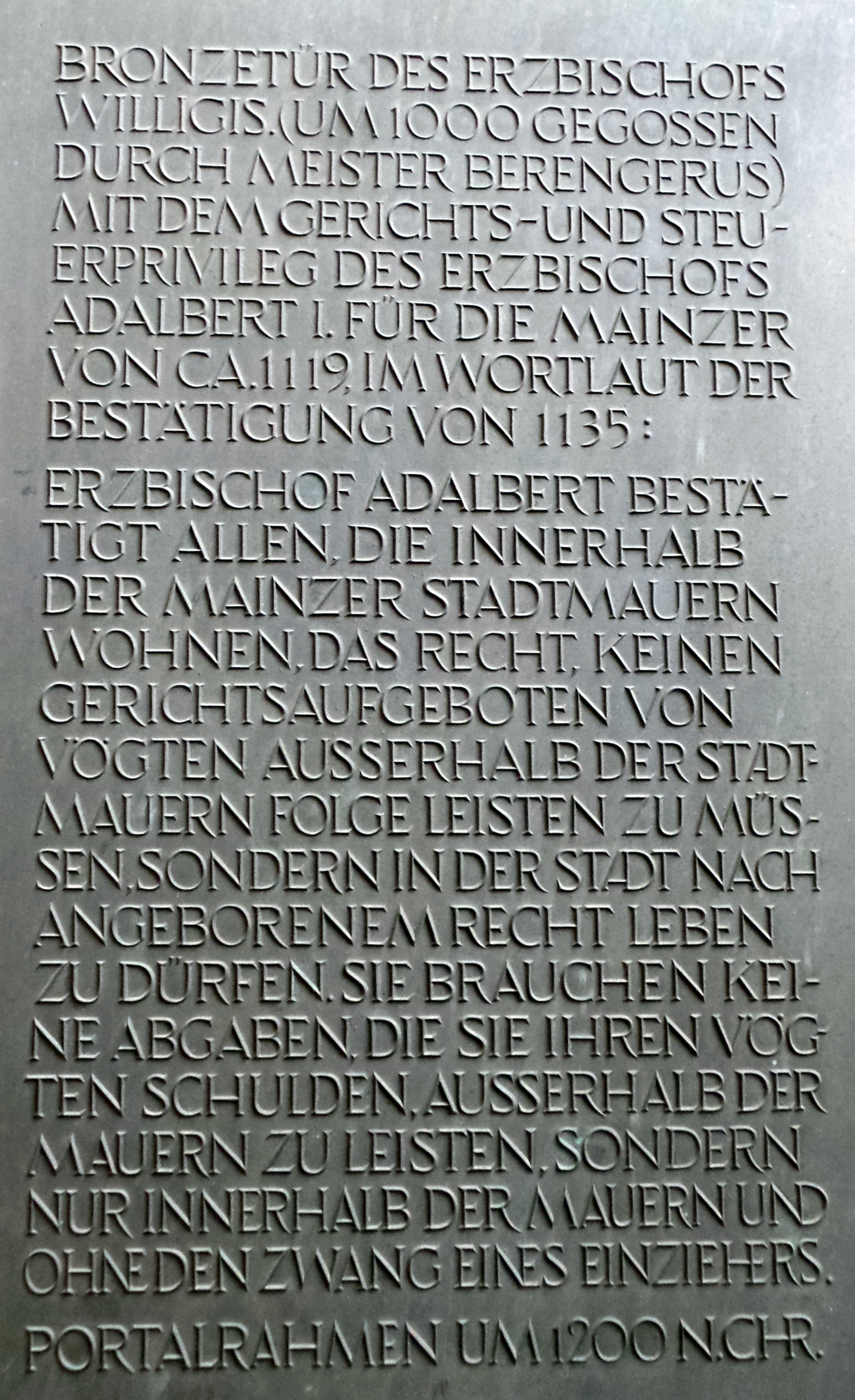 The legal and tax advantages in the wording of the confirmation from 1135. The modern table is next to the market portal with its bronze doors attached.